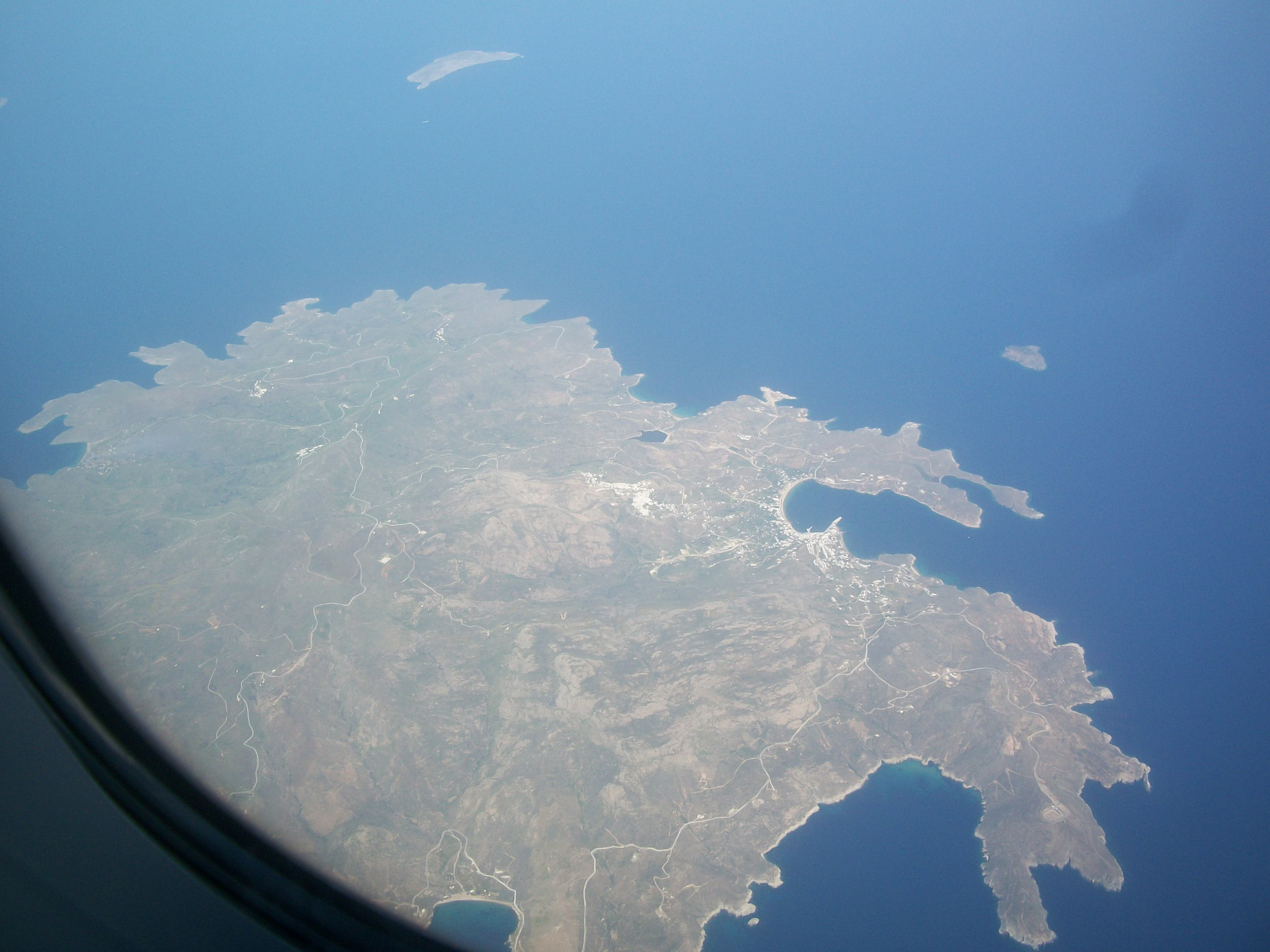 Airview of East Serifos